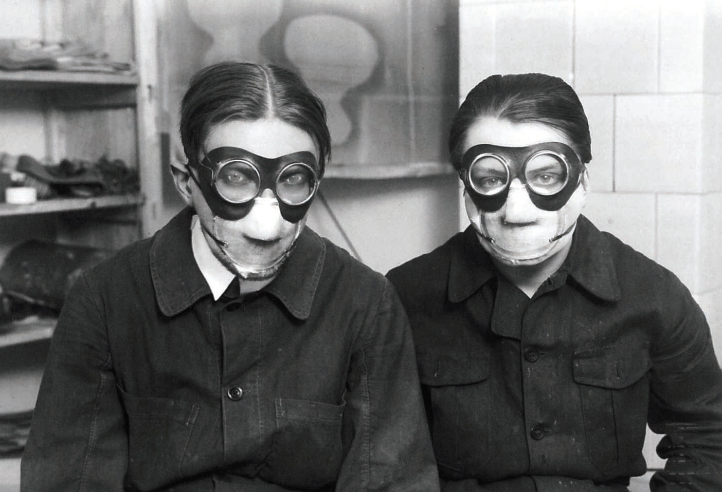 Painters Jindřich Štyrský a Toyen in masks during work with "Deka" colours.